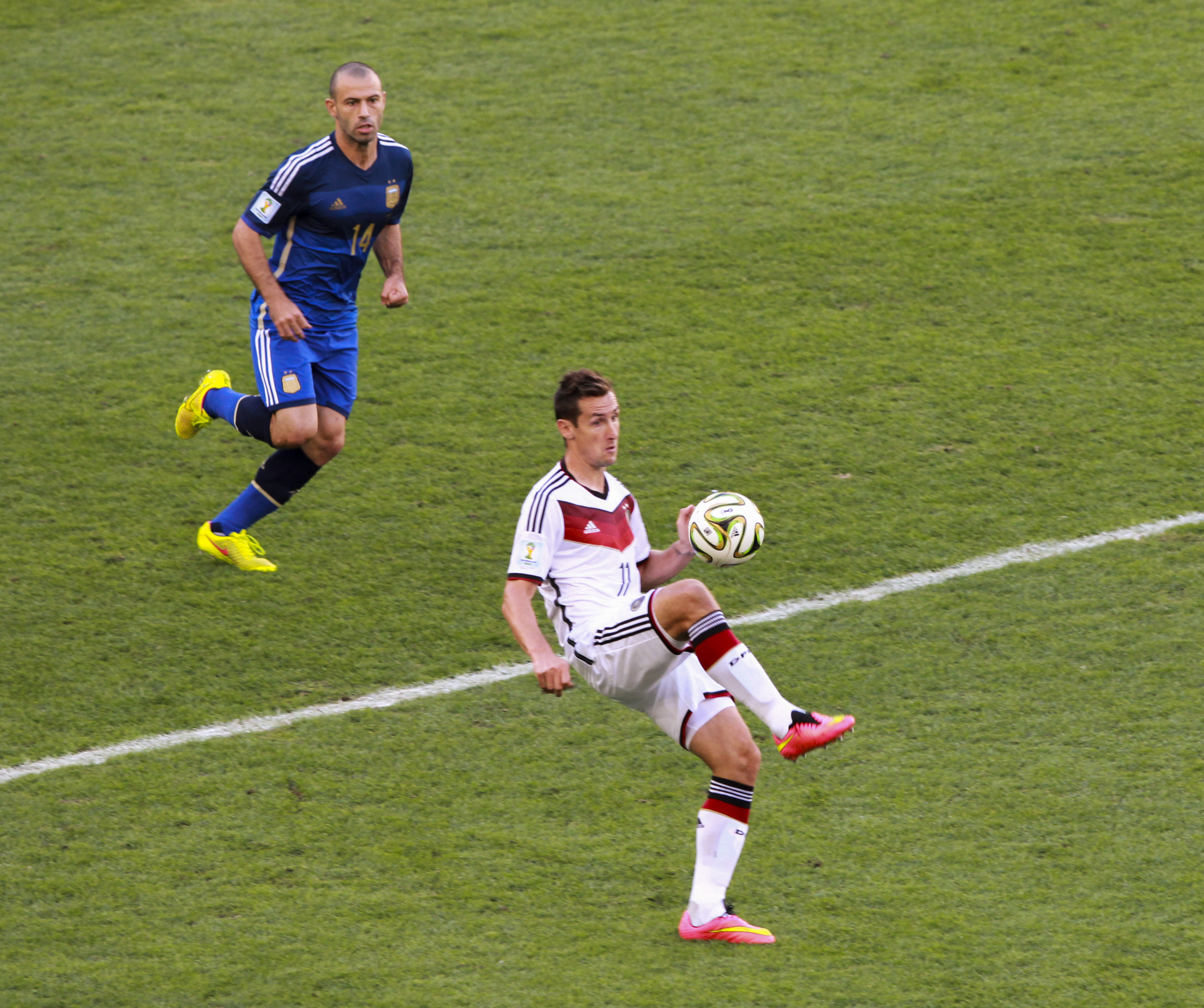 The final match of World Cup 2014 between Germany and Argentina 2014-07-13